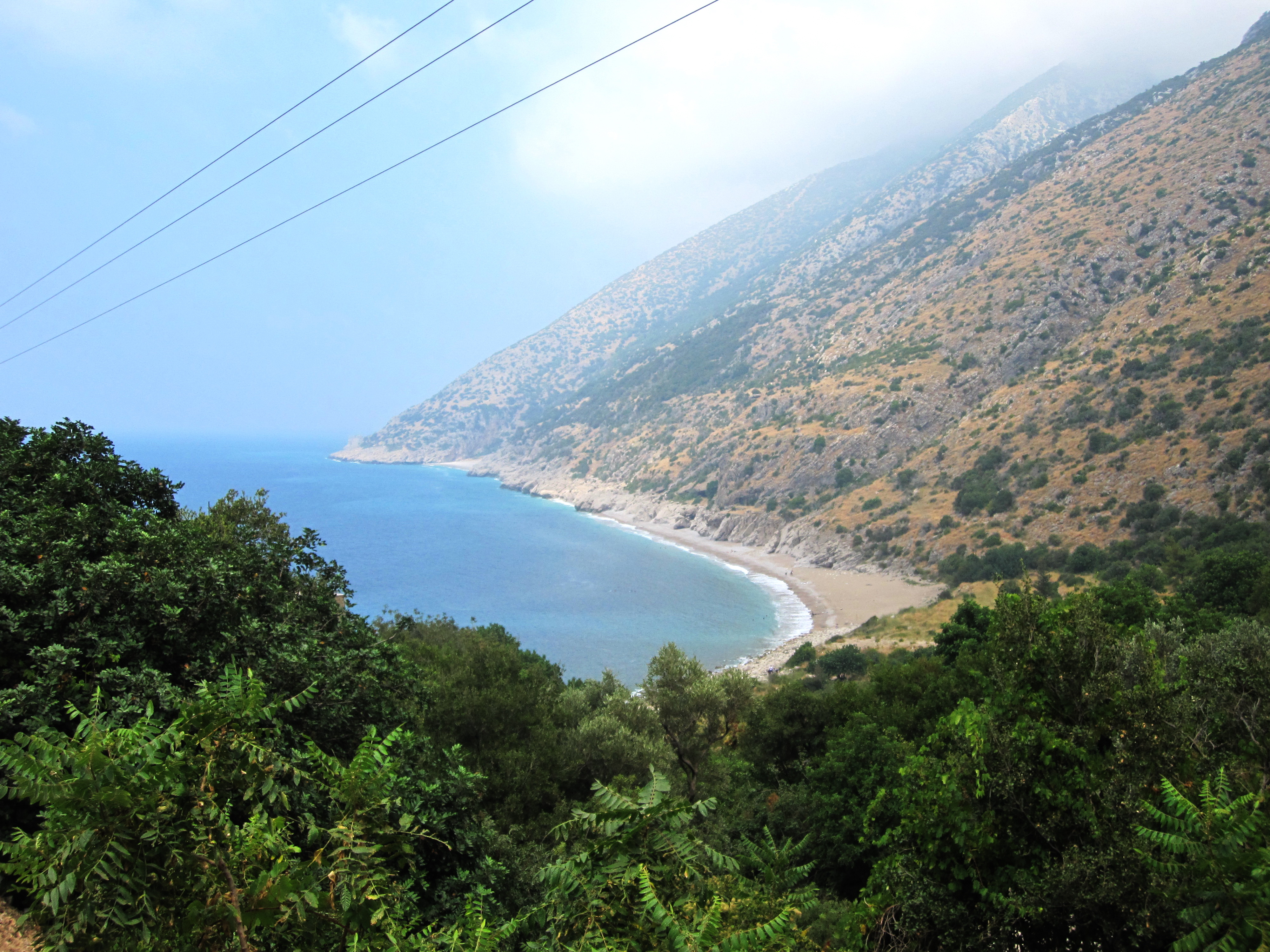 Karadouran (al-Samra) beach on the Syrian-Turkish borderline in Kesab, Syria, with the slopes of Mount Aqraa (Turkish side) at the background.